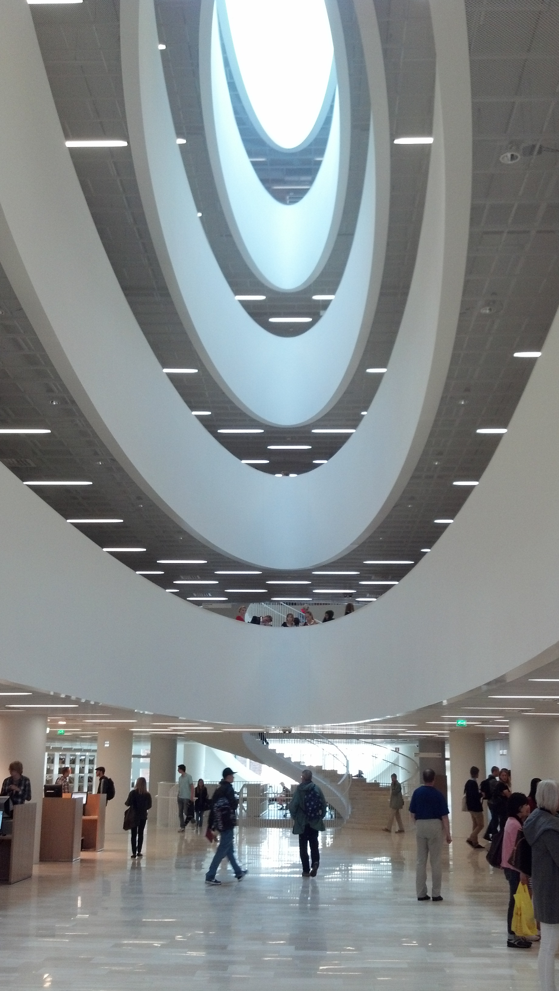 Kaisa-talo, main building of Helsinki University Library, main hall